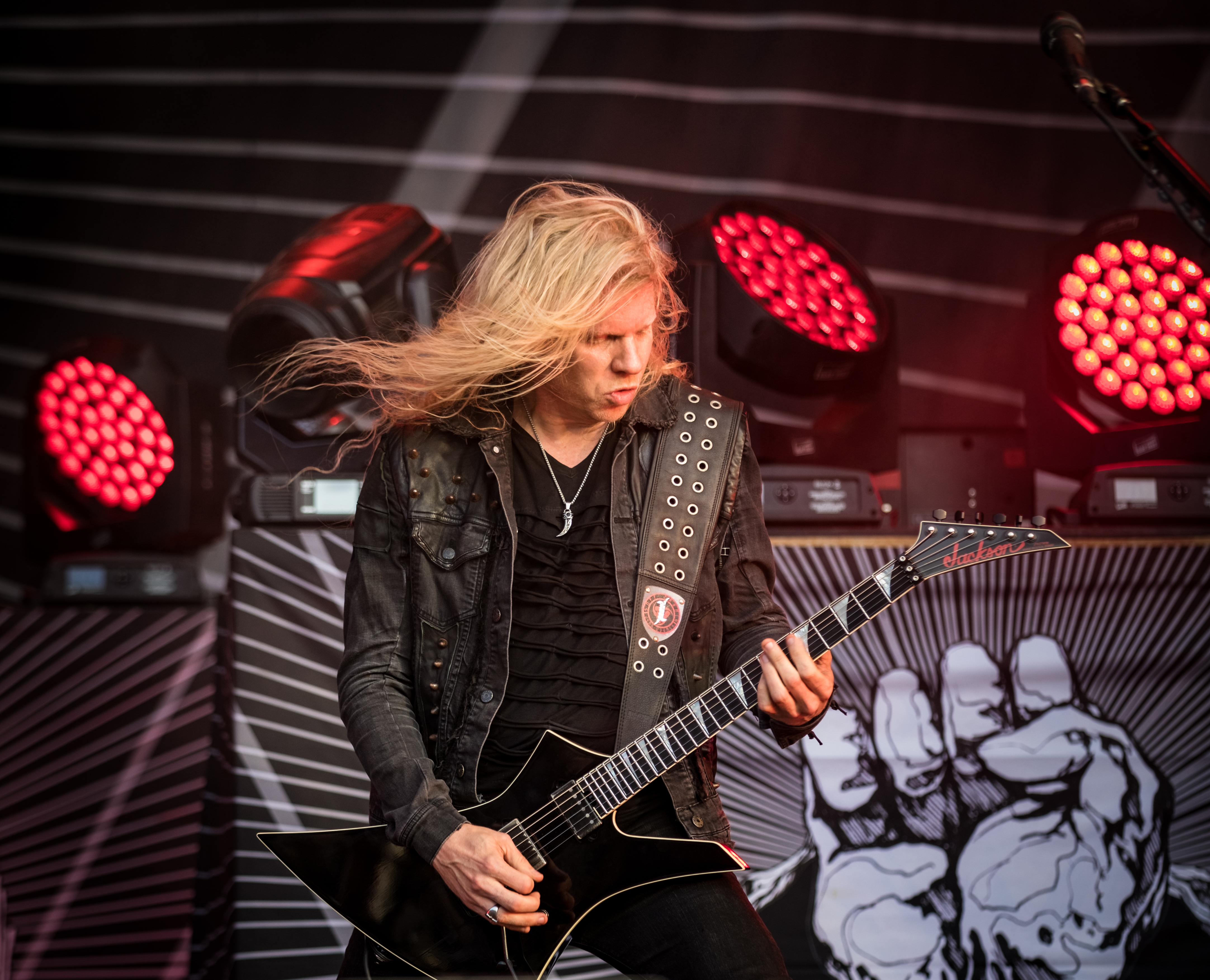 Arch Enemy - Wacken Open Air 2018